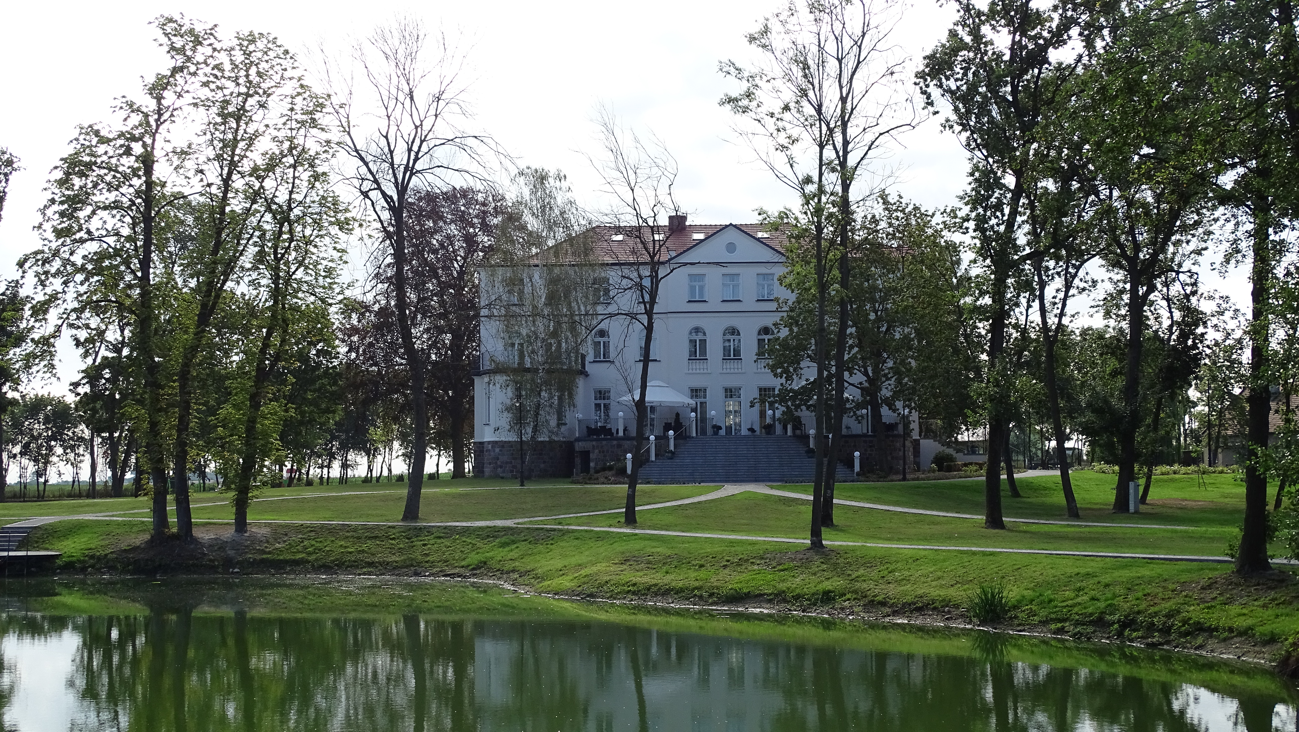 Suchary, Nakło county, Poland. The palace from 1906.